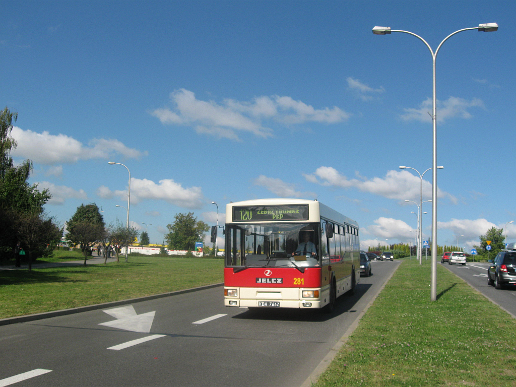 Jelcz M121M bus (#281) in Jastrzębie-Zdrój, Poland. Built 1998, PKM Jastrzębie-Zdrój operator.